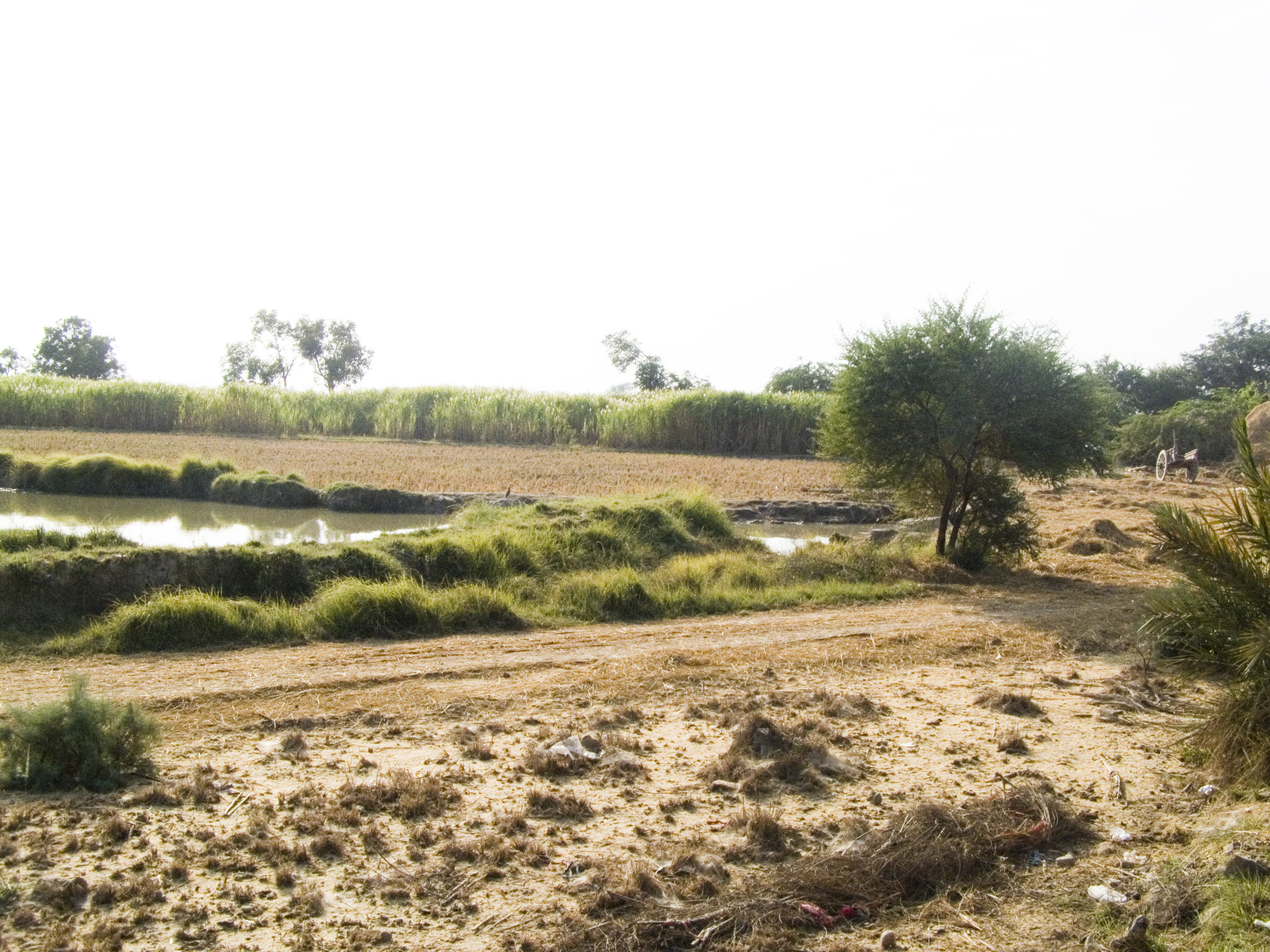 Fields near muhallah Rano Kolhi, Syed Matto Shah